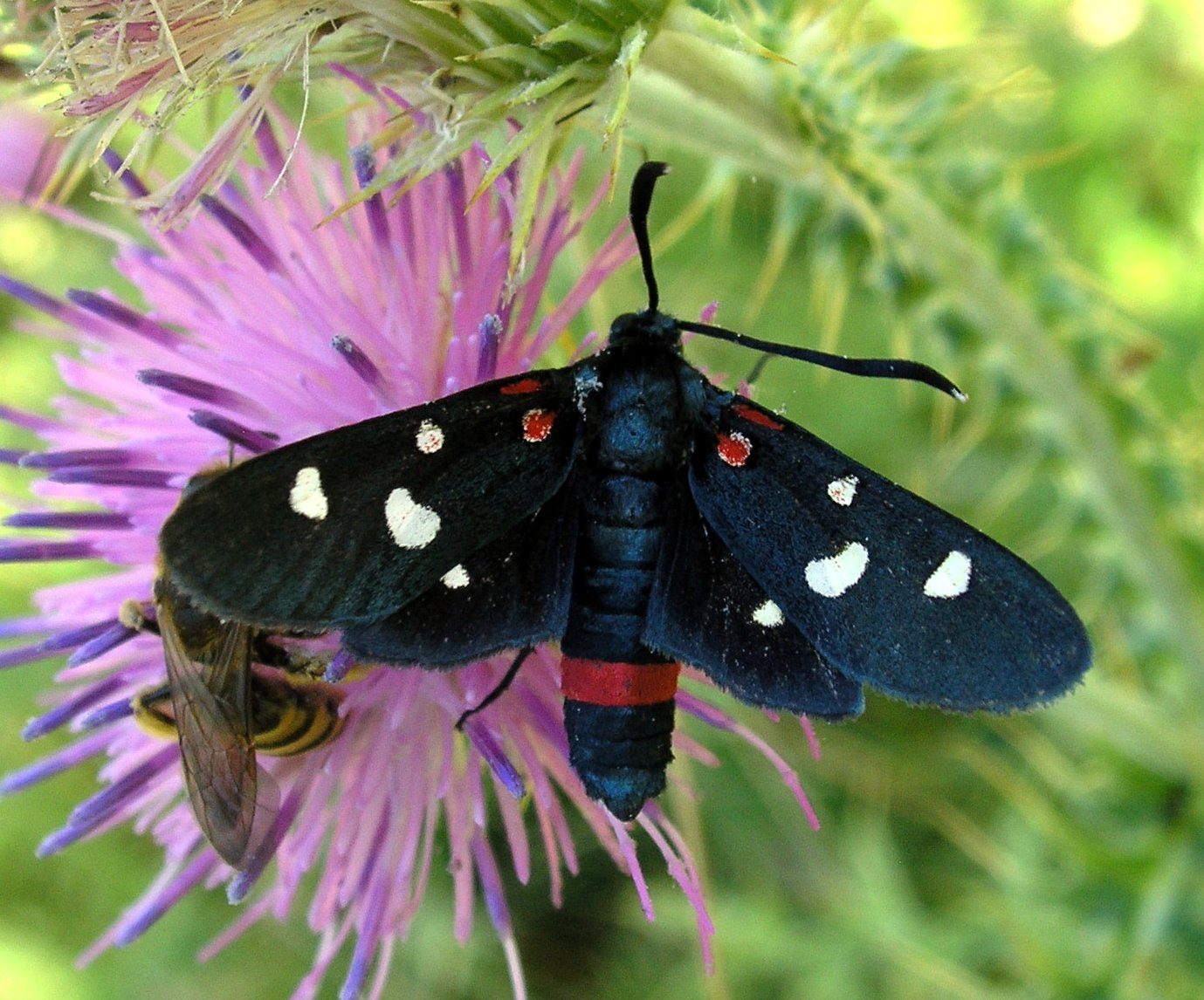 This is a photography of Natura 2000 protected area with ID GR1150005